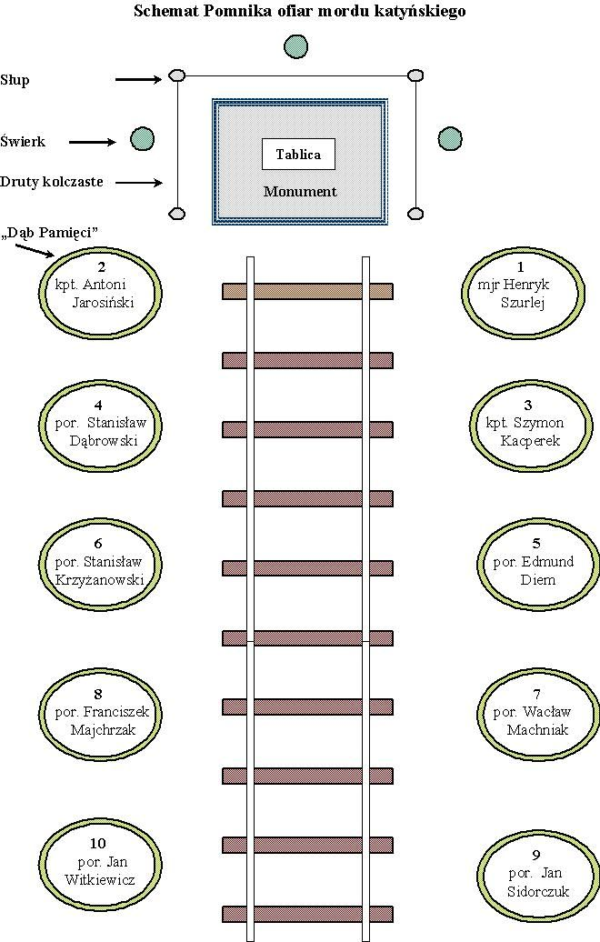 Diagram of the Monument to victims of the Katyn massacre in Osowiec-Twierdza. (Fort I)